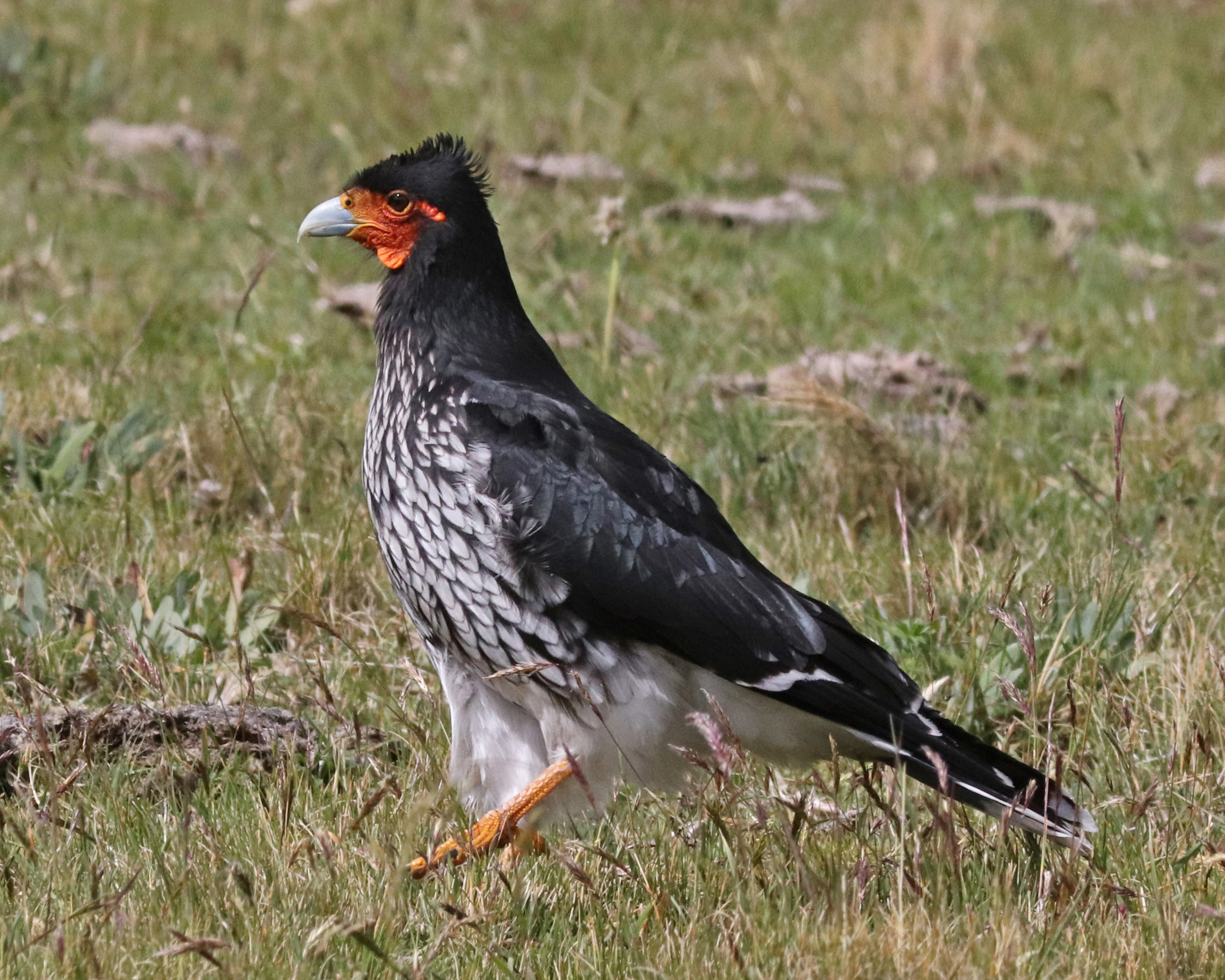 photo of Carunculated Caracara taken in Antisana Ecological Reserve, Ecuador